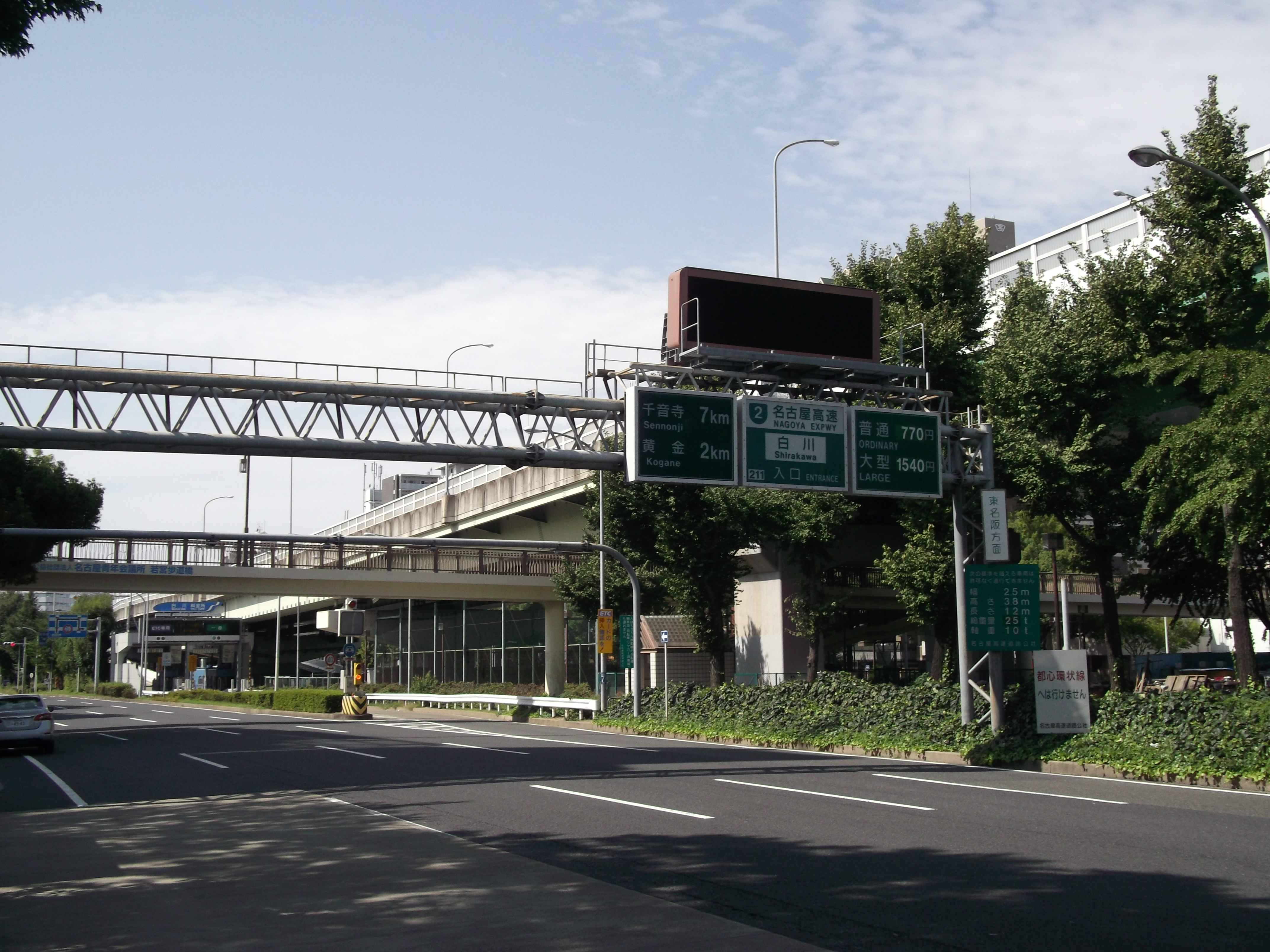 Shirakawa Entrance on the Nagoya Expressway Route 2 in Naka-ku, Nagoya City